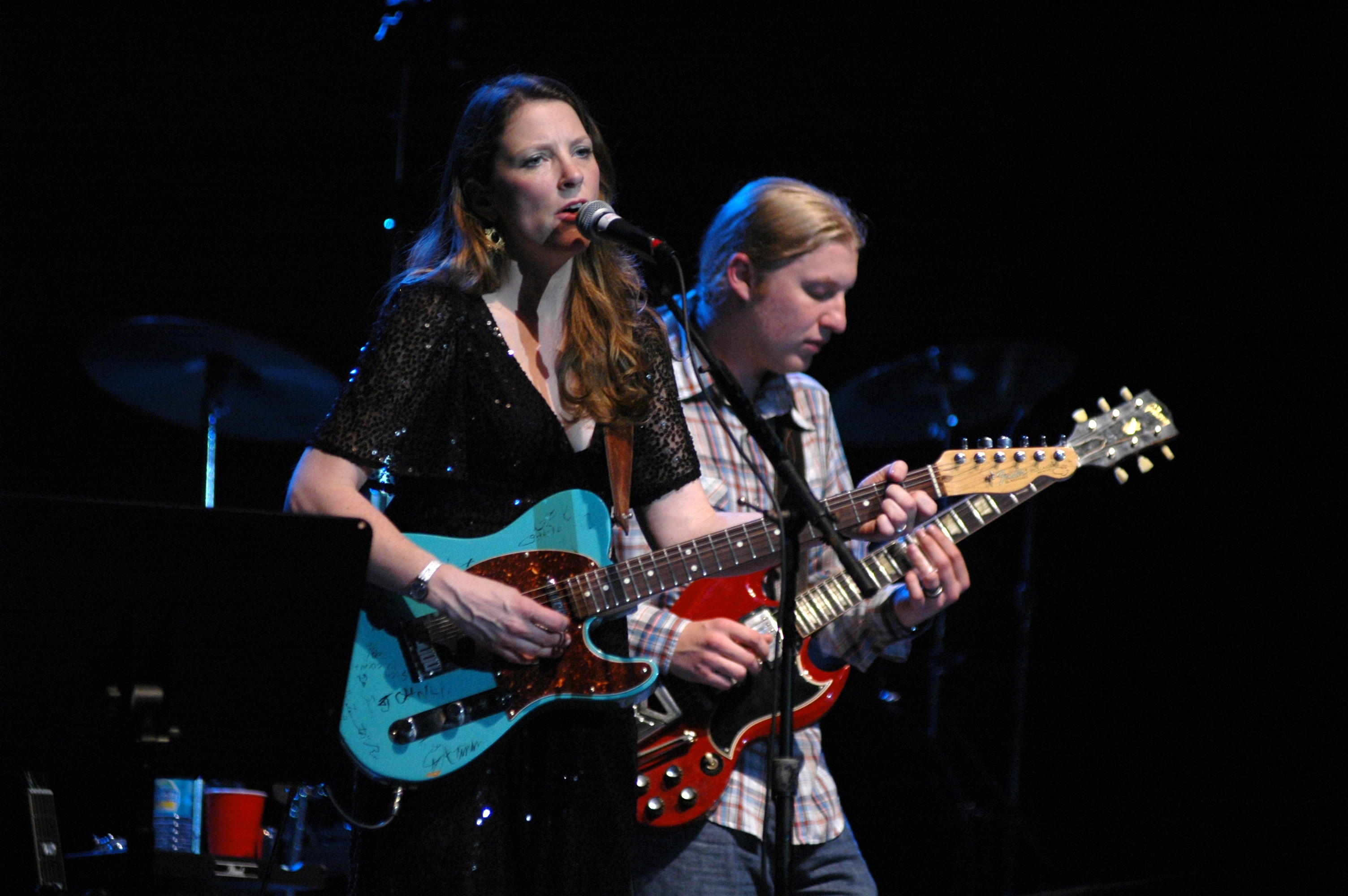 Soul Stew Revival at Mizner Park. 12/28/07.